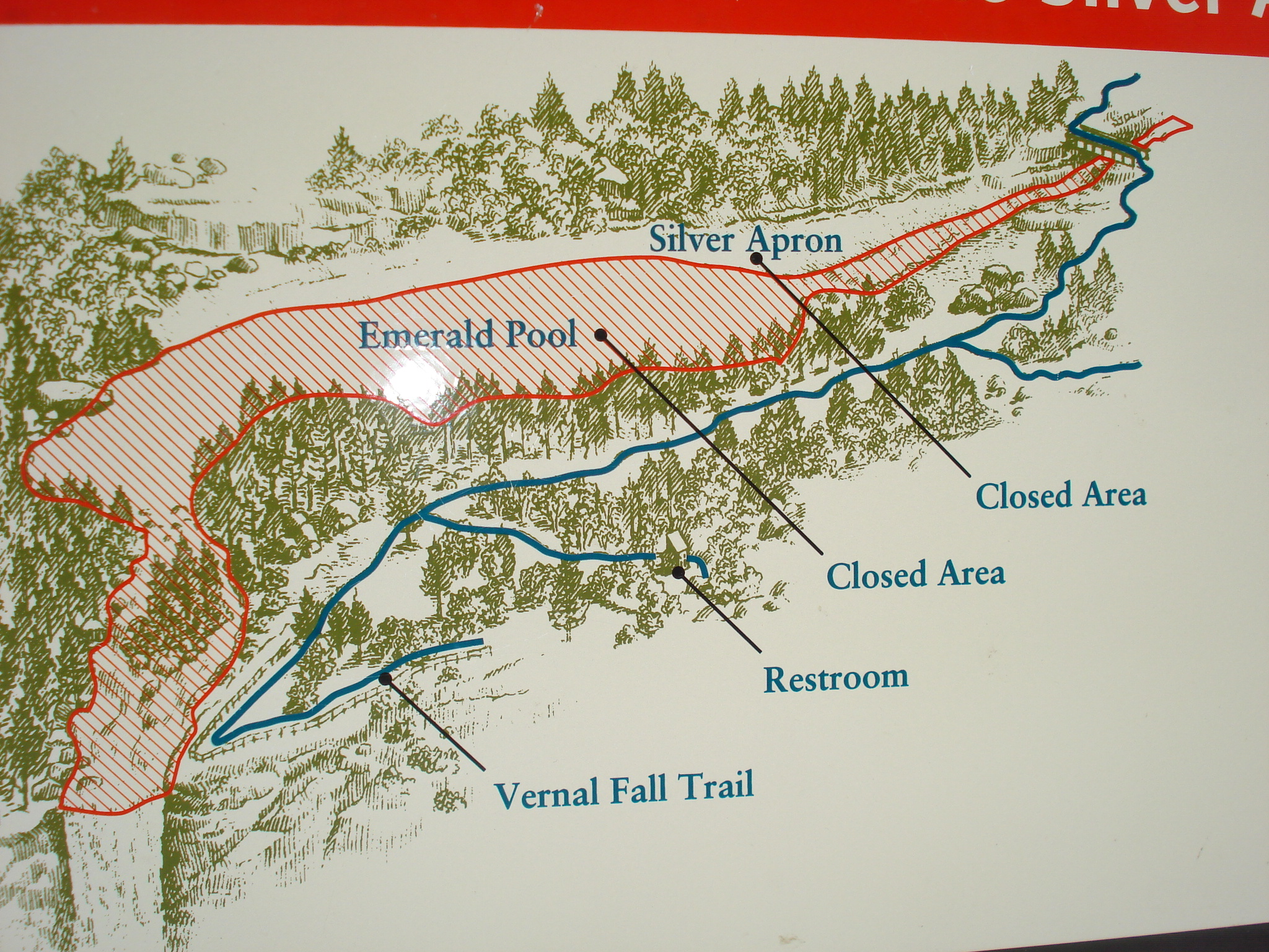 One of the warning signs prohibiting swimming or wading into the Emerald Pool on the Grand Staircase of the Merced River, at the easternmost end of the Yosemite Valley, Yosemite National Park, California.